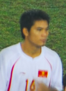 Huynh Quang Thanh in Vietnam football team saluting before the match with Thailand in the second-tier AFF Cup 2008 final, December 28, 2008, at My Dinh National Stadium